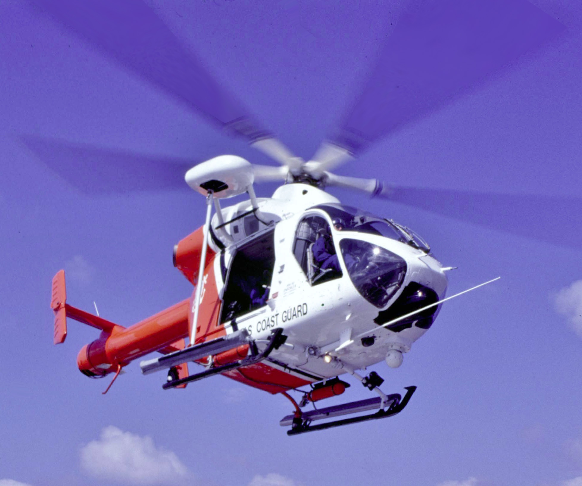 Miami, FL (Apr. 12)--The MH90 Enforcer helicopter landing on the deck of the Coast Guard Cutter Gallatin after a drug bust which the Enforcer and Gallatin worked together. The Coast Guard has recently unveiled its new MH90 Enforcer helicopter which is specifically designed to encounter the "go-fast" drug smuggling boat.